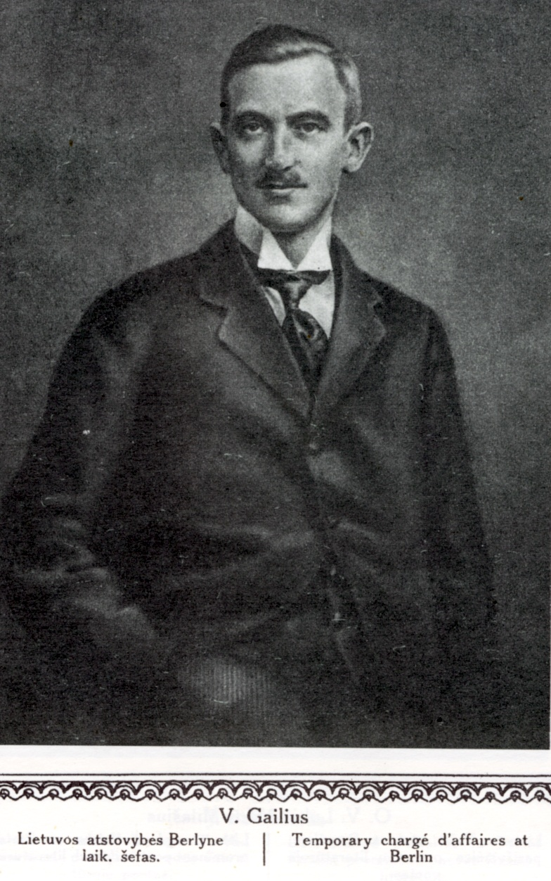 Viktoras Gailius, lawyer from Lithuania Minor, governor of Klaipėda 1938-1939